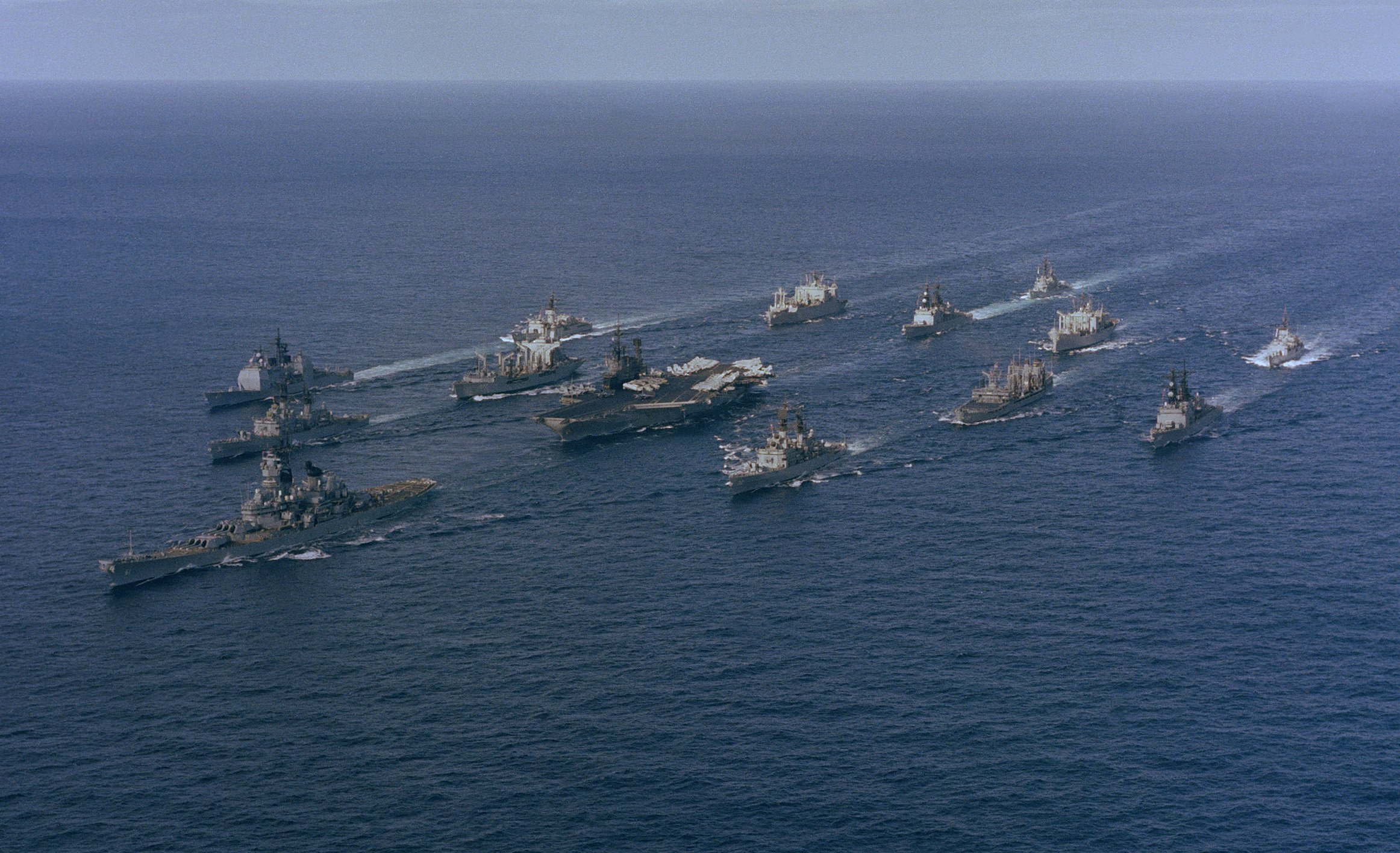 The U.S. Navy battleship USS Iowa (BB-61) and the aircraft carrier USS Midway (CV-41) surrounded by other ships of Battle Group Alpha while underway in formation in the Indian Ocean, 1 December 1987. The following ships are identifiable: the battleship USS Iowa (BB-61); a Belknap-class guided missile cruiser, probably USS Sterrett (CG-31); the guided missile cruiser USS Ticonderoga (CG-47); probably USS Fox (CG-33); the aircraft carrier USS Midway (CV-41); the fleet oiler USS Cimarron (AO-177); the destroyer USS Deyo (DD-989); the Military Sealift Command fleet oiler USNS Mispillion (T-AO-105); the Knox-class figates USS Knox (FF-1052) and USS Francis Hammond (FF-1067); the combat stores ship USS White Plains (AFS-4); USS Oldendorf (DD-972); the ammunition ship USNS Kilaulea (T-AE-26); the guided missile destroyer USS Towers (DDG-9).